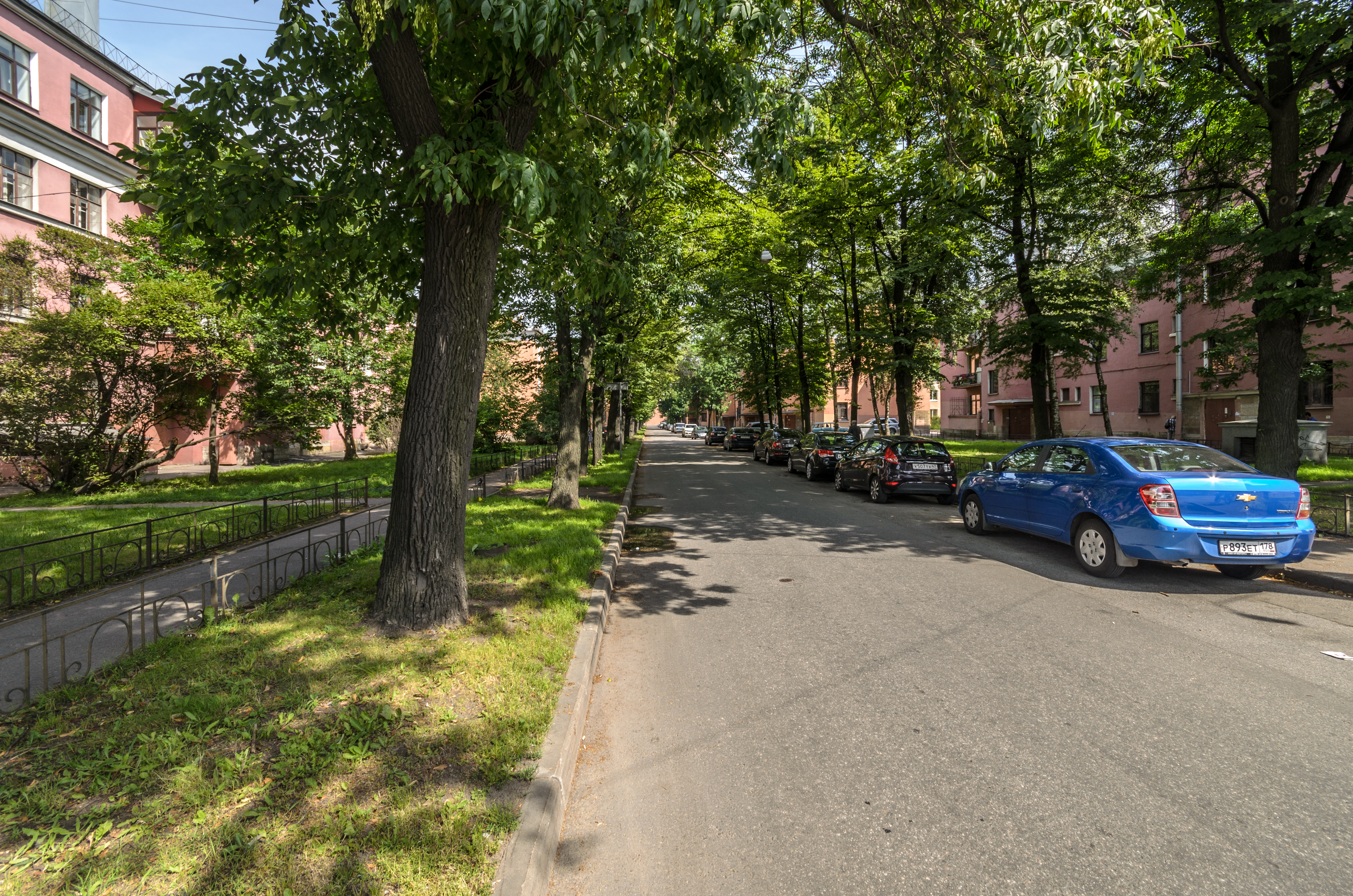 Traktornaya Street in Saint Petersburg